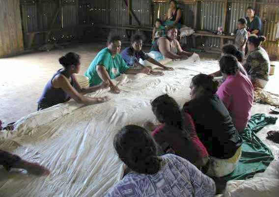 Women rubbing the patterns into the tapa sheet in ʻEua (Tonga).